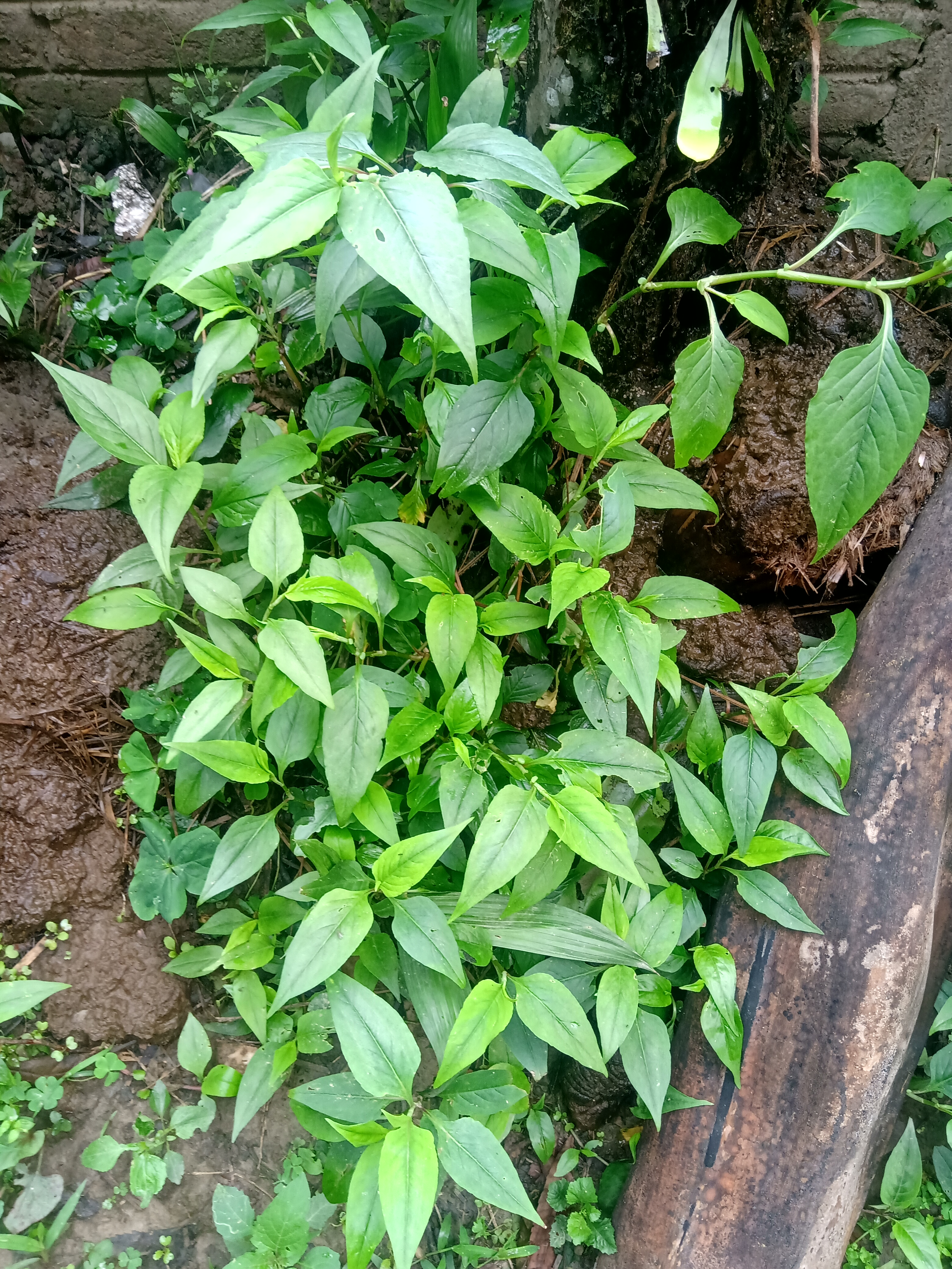 Modhu xuleng in Assamese language